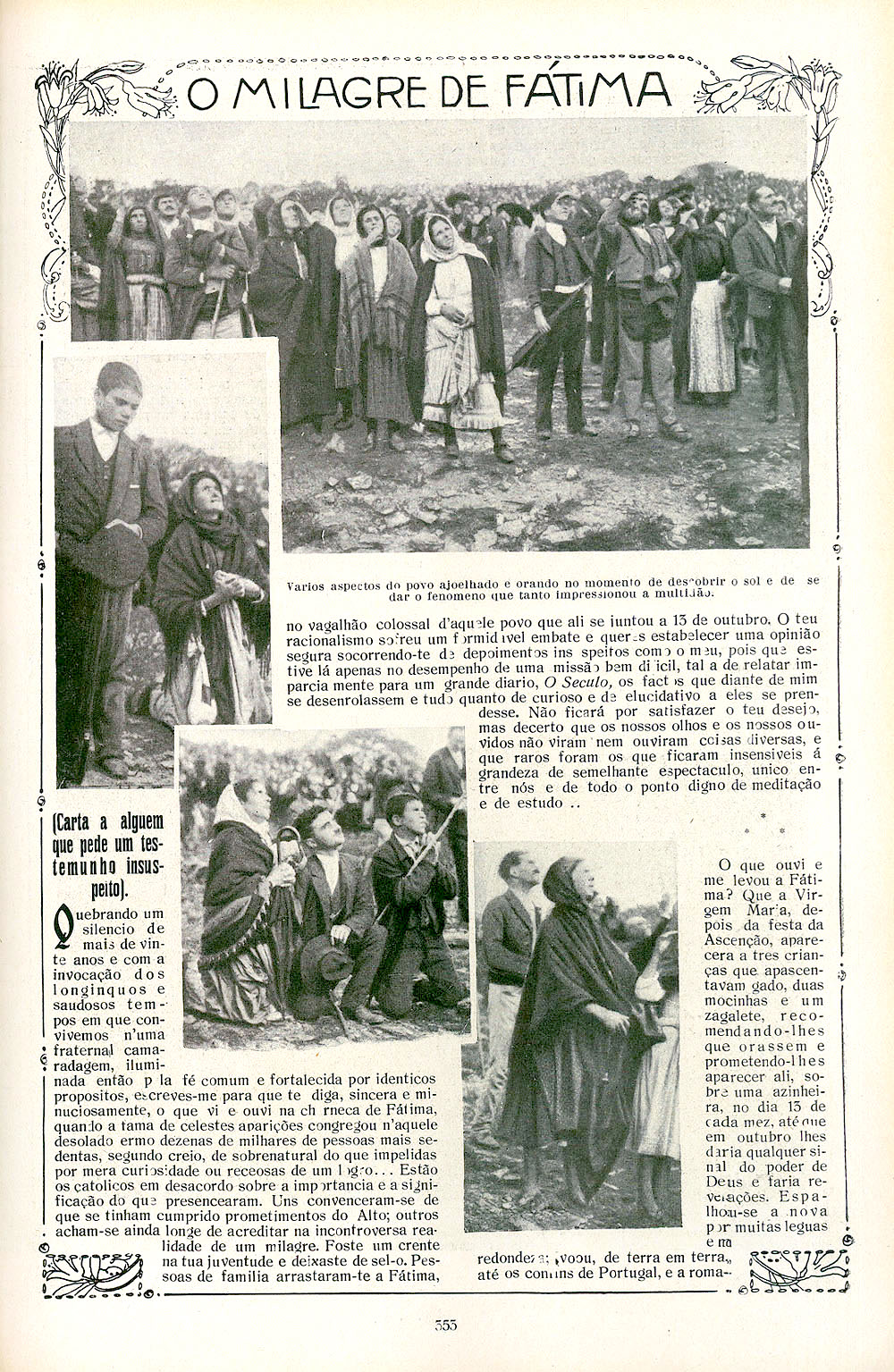 A photostatic copy of a page from Ilustração Portuguesa, October 29, 1917, showing the crowd looking at the "miracle of the sun" (attributed to the Virgin Mary).